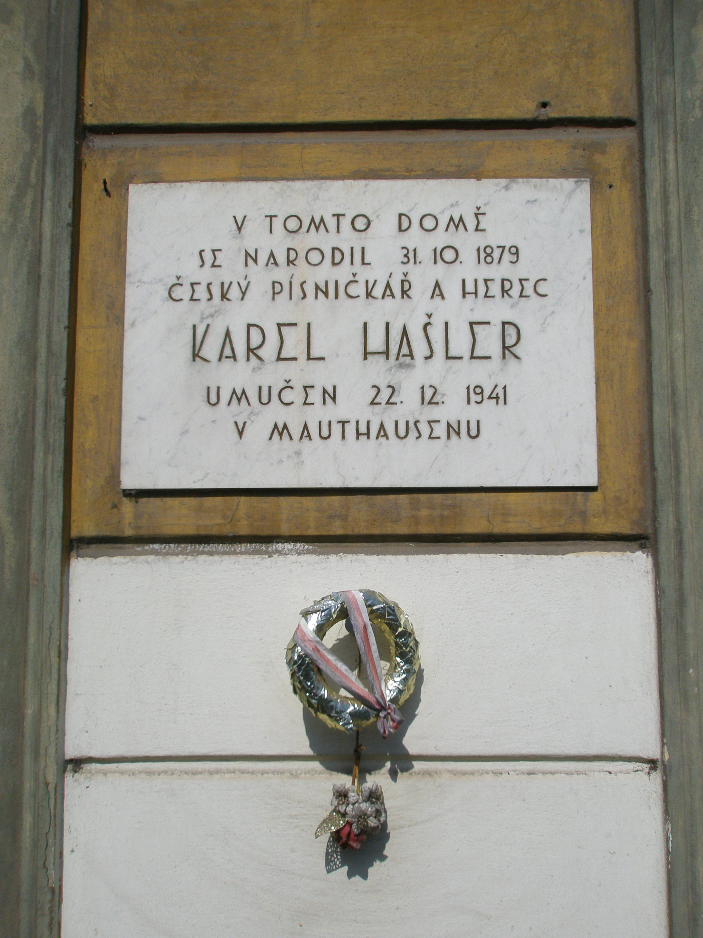 Prague 5, street Na Zlíchově 242/33, plaque on birth house of Czech musician Karel Hašler